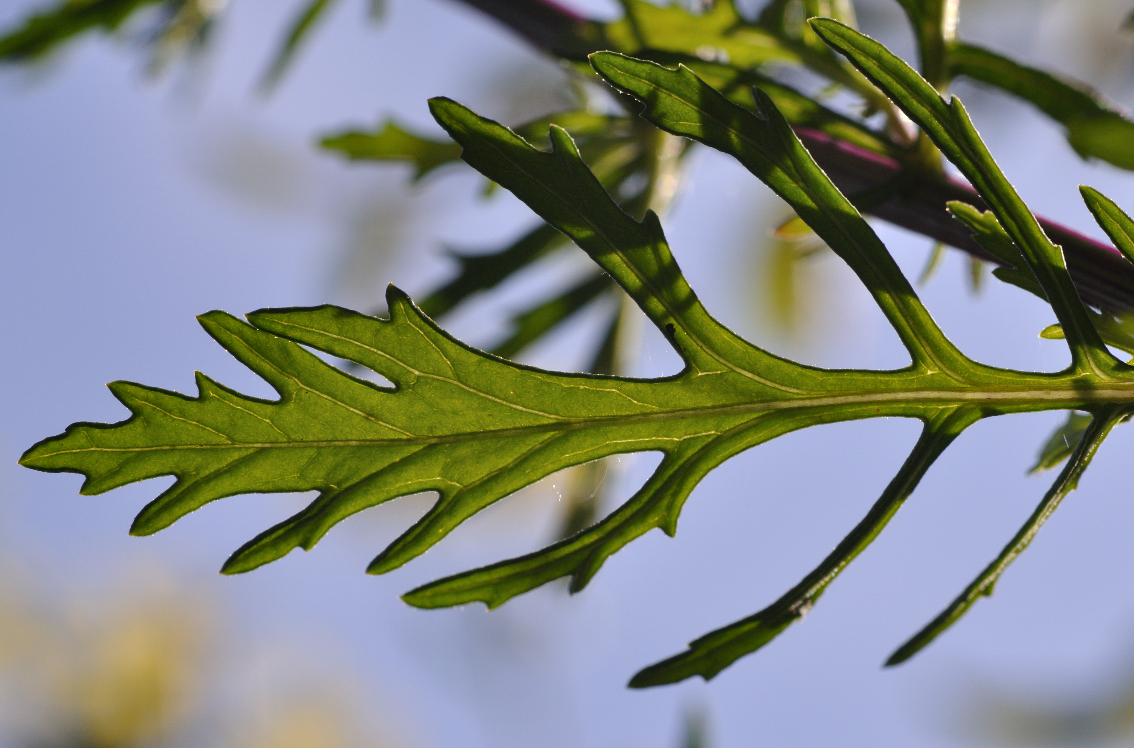 Underside of a leaf of Hoary Ragwort (Senecio erucifolius ssp. tenuifolius) near the old airstrip, Frankfurt, Germany.